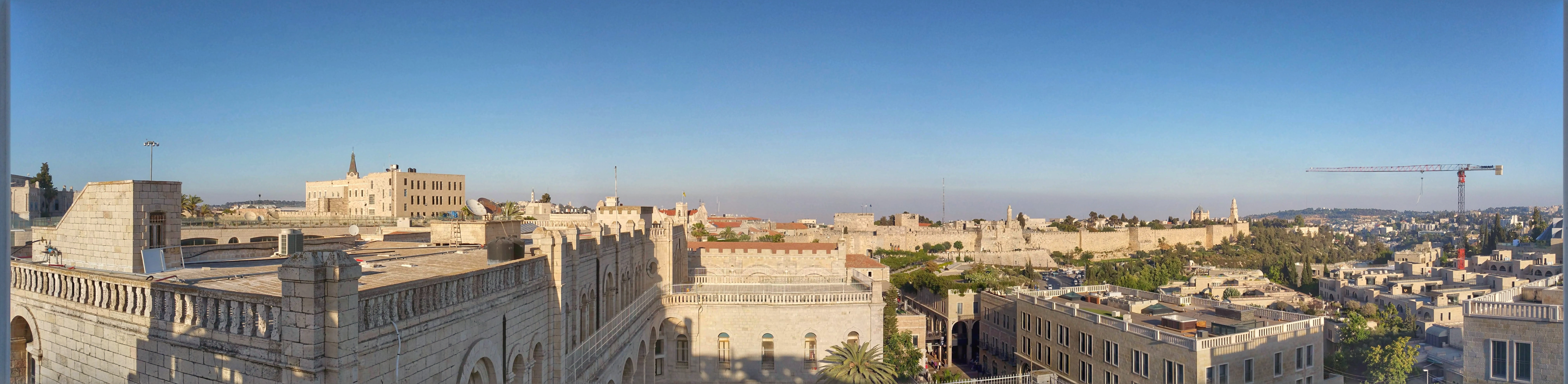 A panoramic view of mamila mall and the Jerusalem old City from west to east.